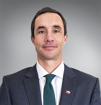 Juan Carlos Jobet como Ministro de Energía (2019)